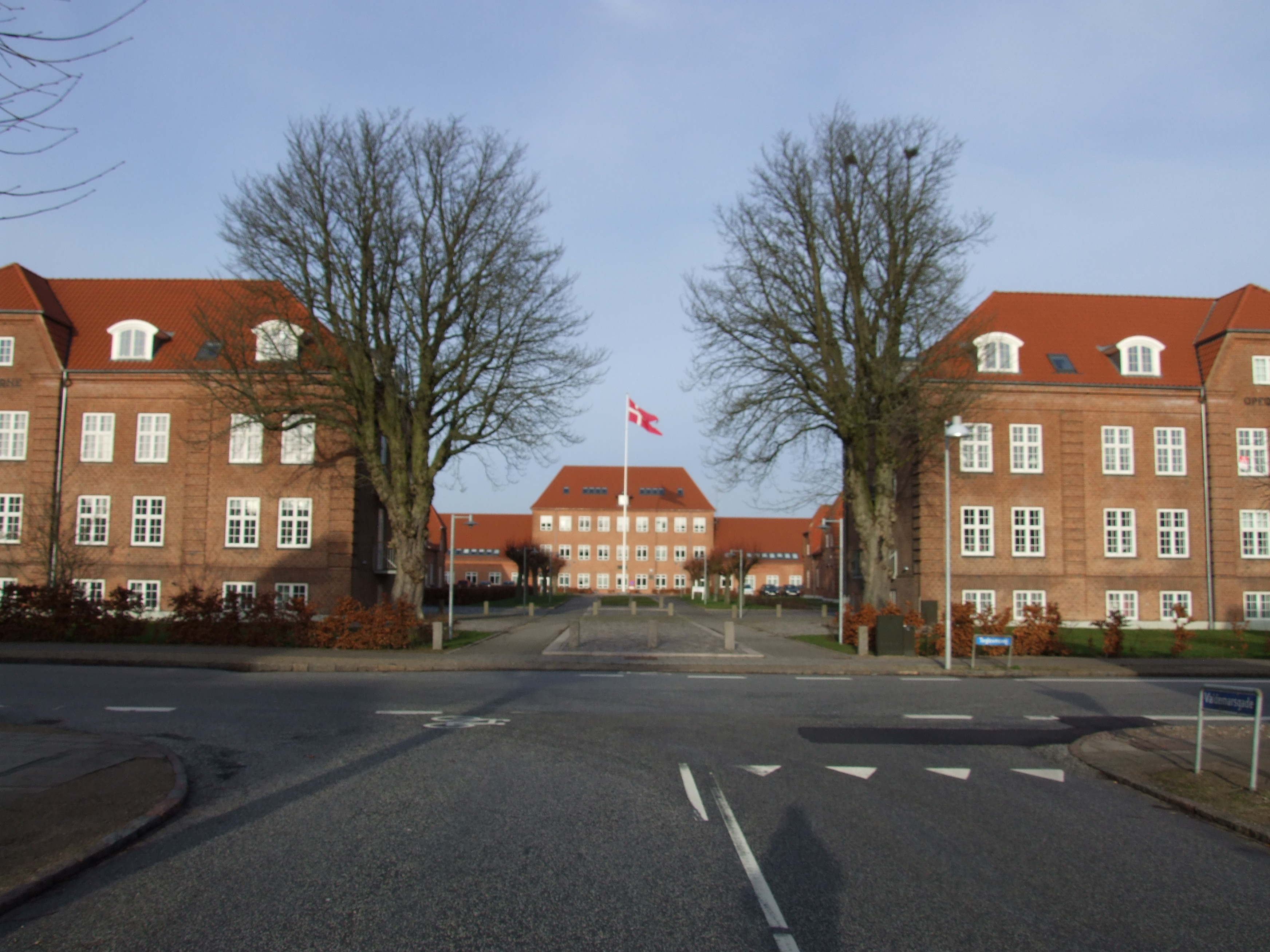 Defunct Ringsted barracks